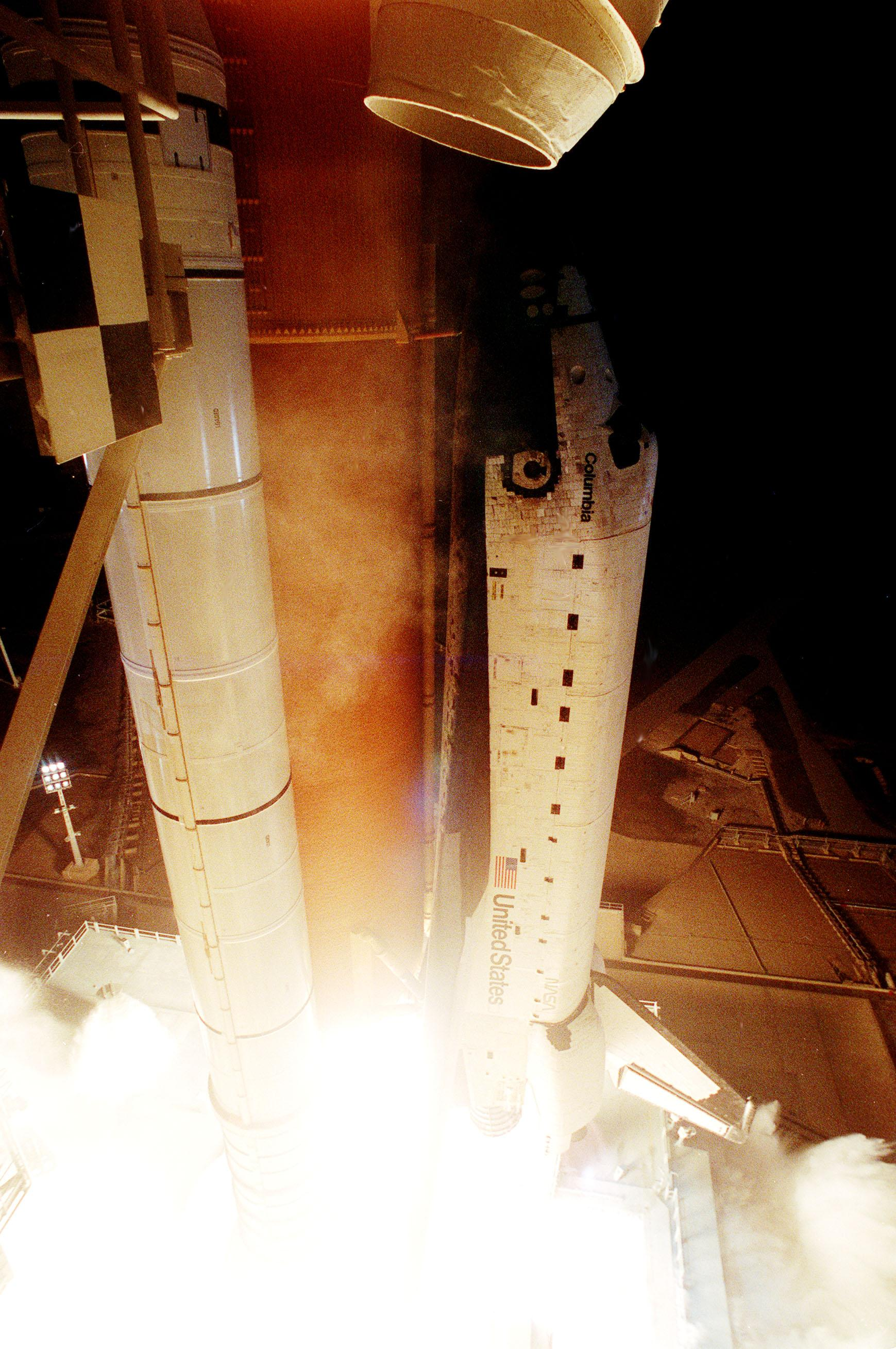 (July 23, 1999) On July 23, 1999, the Space Shuttle Columbia launched from Kennedy Space Center to begin its five day trip into space. STS-93 was the first shuttle mission commanded by a woman, Col. Eilen M. Collins. The main goal of the mission was to deploy the Chandra X-Ray Observatory, a telescope designed to detect X-ray emission from extremely hot areas of the Universe, such as exploded stars. The astronauts also experimented on several plants, and took ultraviolet images of the Earth, the Moon, Mercury, Venus, and Jupiter. Image # : KSC-99PP-0962